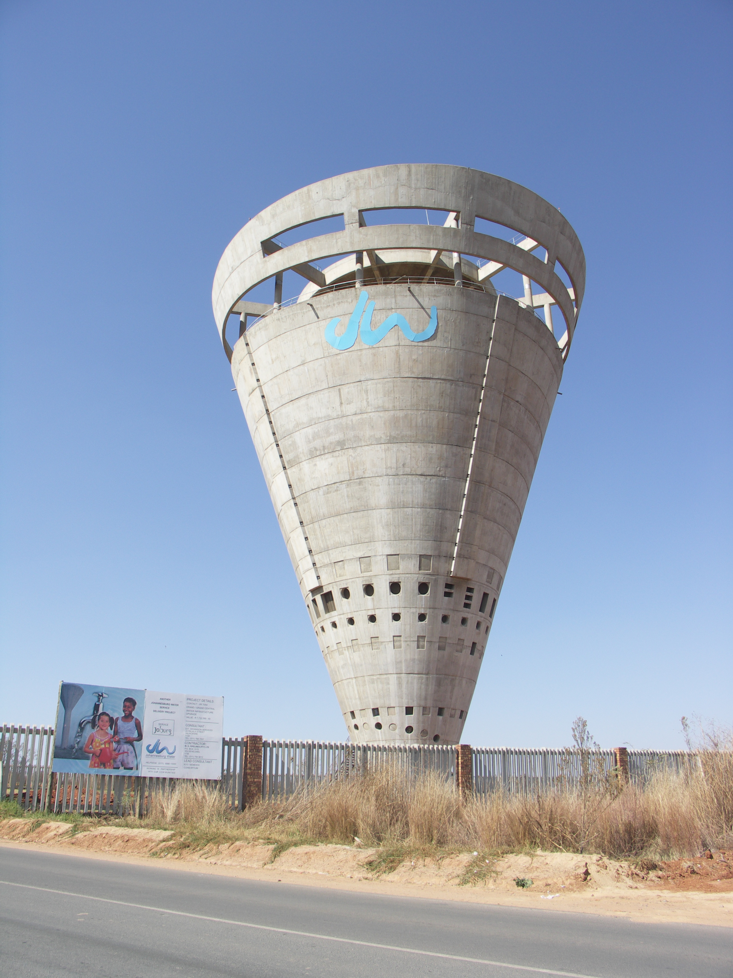 One of the most notable features of Midrand, Johannesburg, the Joburg Water water tower next to Grand Central Airport. Build year 1970s?